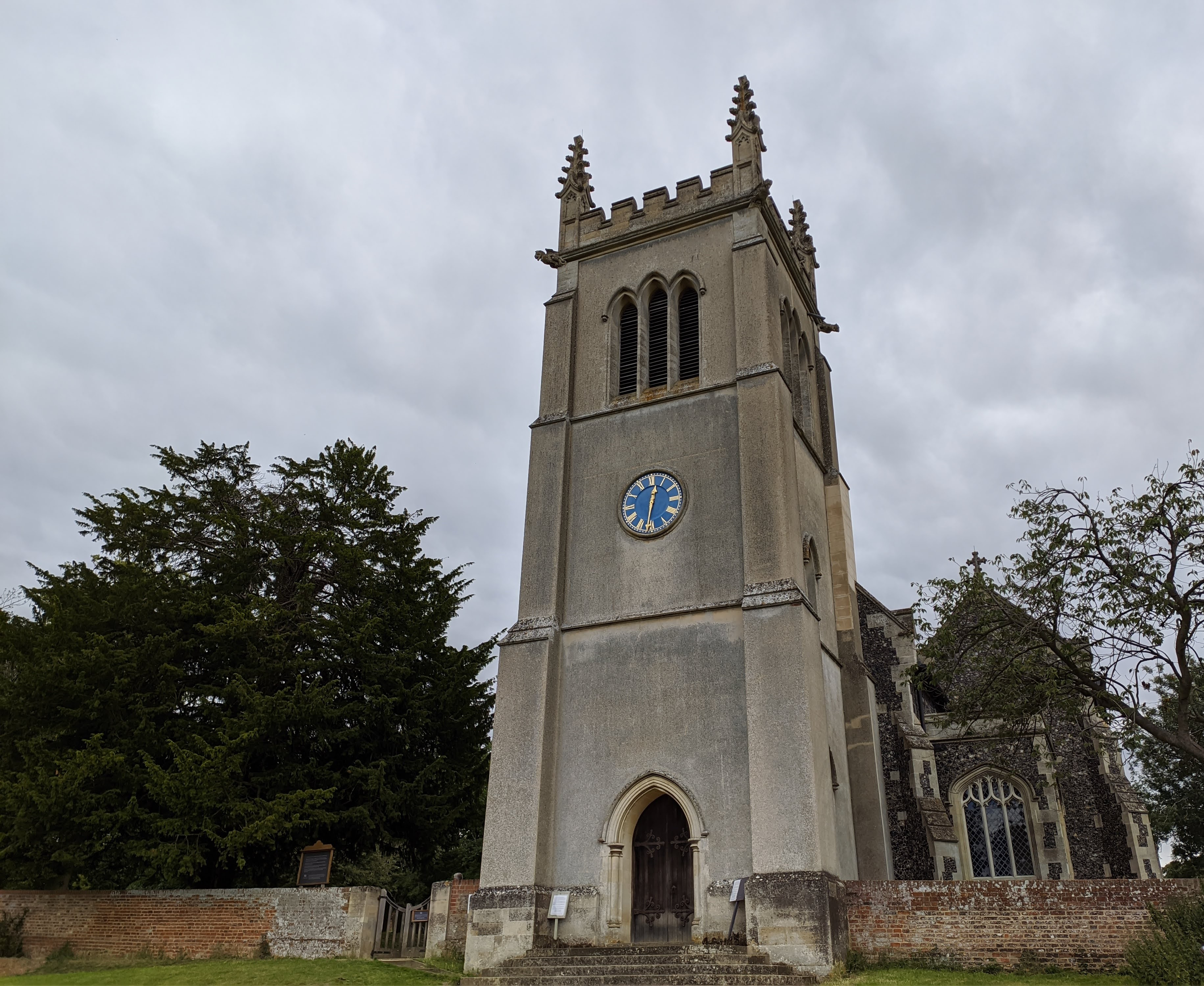 The front of St Mary's Church in Ickworth, including the clock.